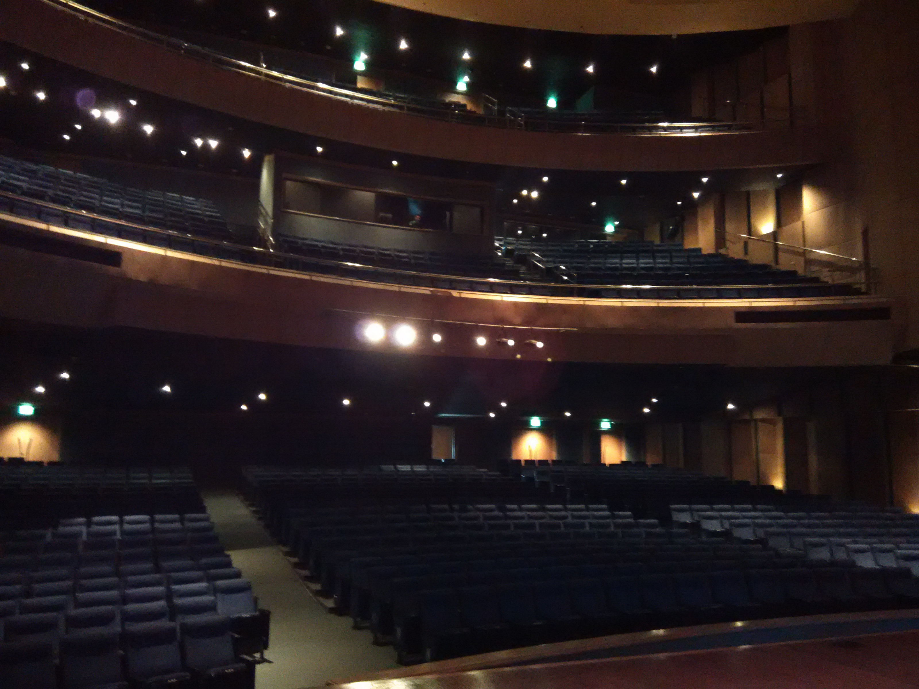 The seats of the theater, separated from orchestra, balcony 1 and balcony 2.